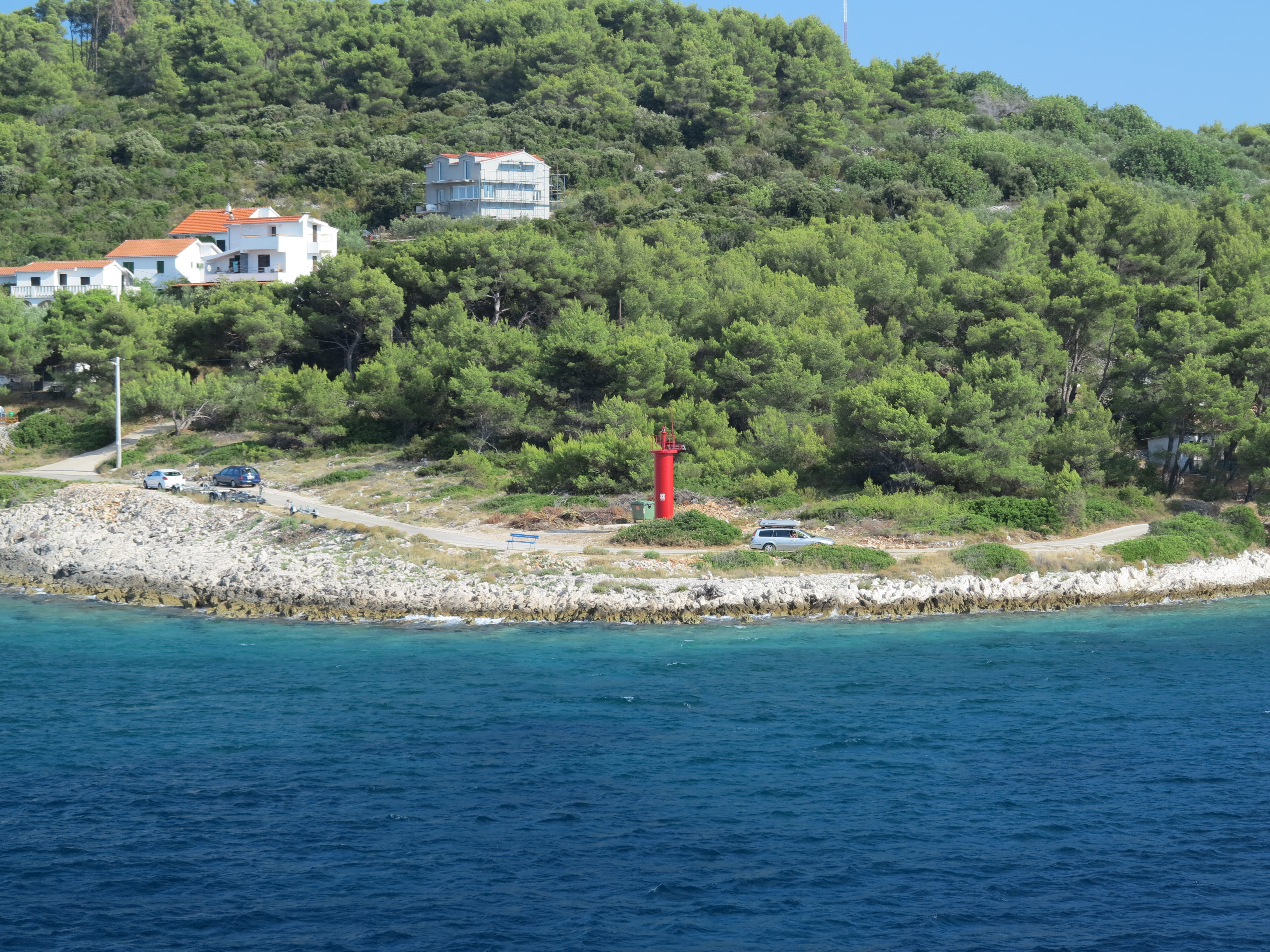 Rogač on the island Šolta / Croatia / Adriatic Sea.